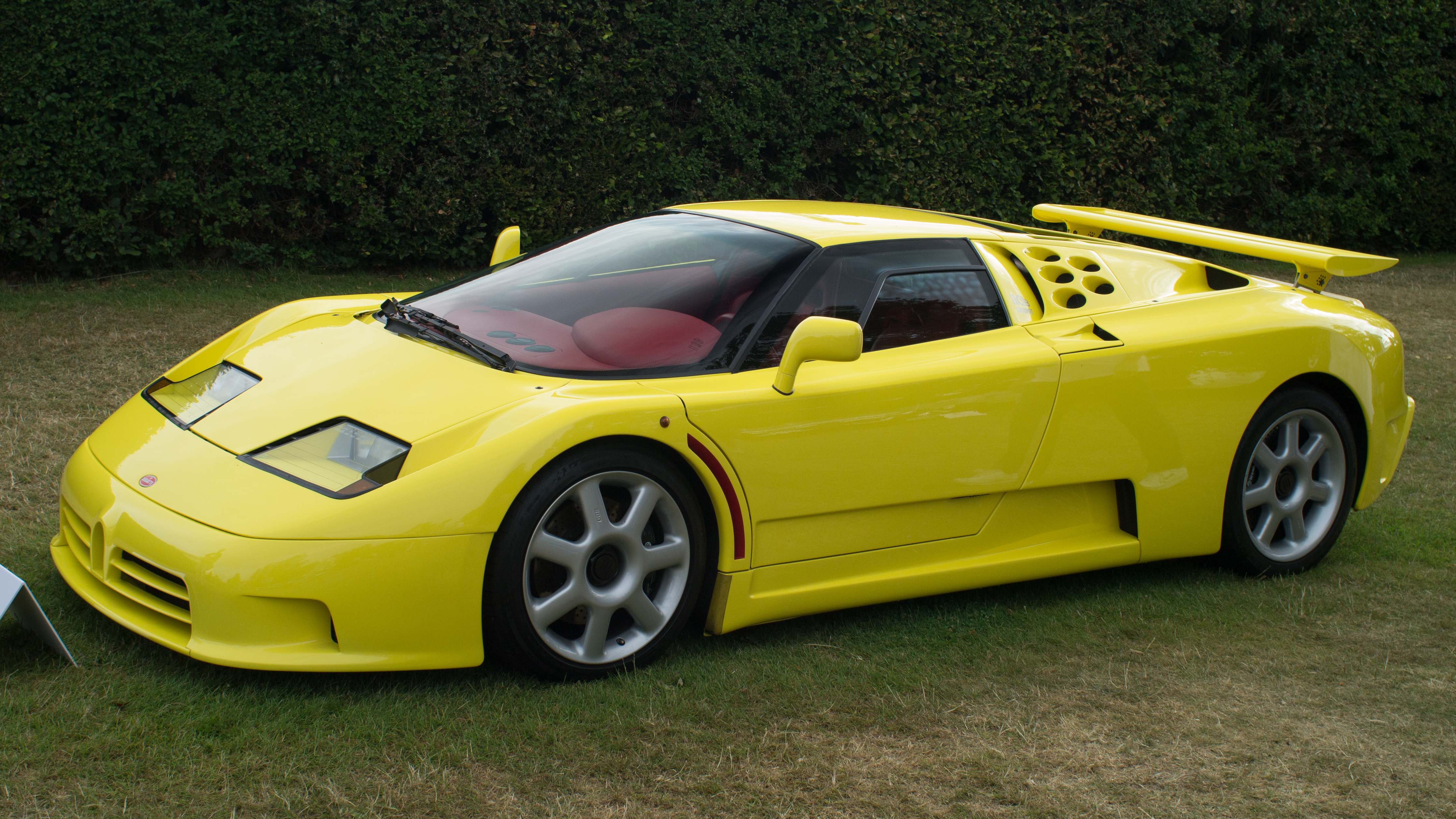 1995 Bugatti EB 110 SS at the Goodwood Festival of Speed 2015.